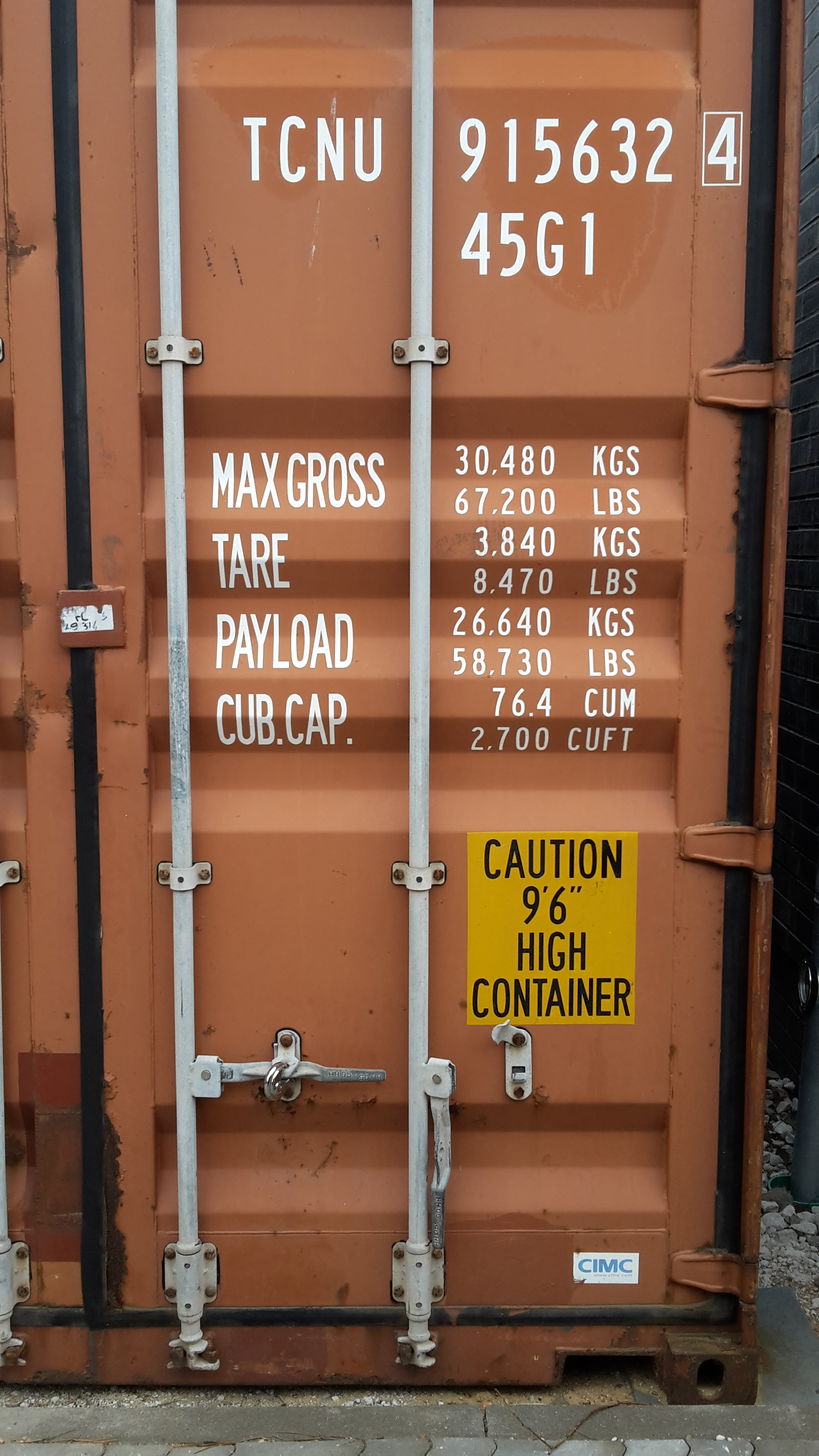 Detail of a ISO container: Right hand door with ISO 6346 reporting mark (ownership code) on top followed by specific gross, tare and payload weights in kilogramms and libs, as well as capacity in cubicmeters and cbic feets. In this case a 9'6" High Container.